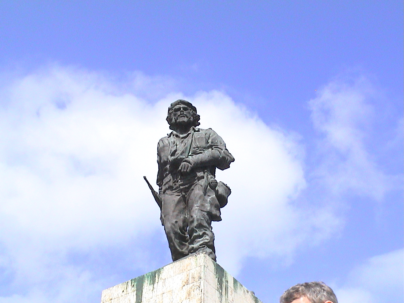 Che Guevara Monument in Santa Clara, Cuba